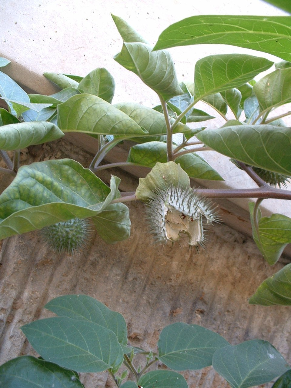 Datura innoxia plant at the Tel Aviv University train station, showing a ripe split-open fruit.